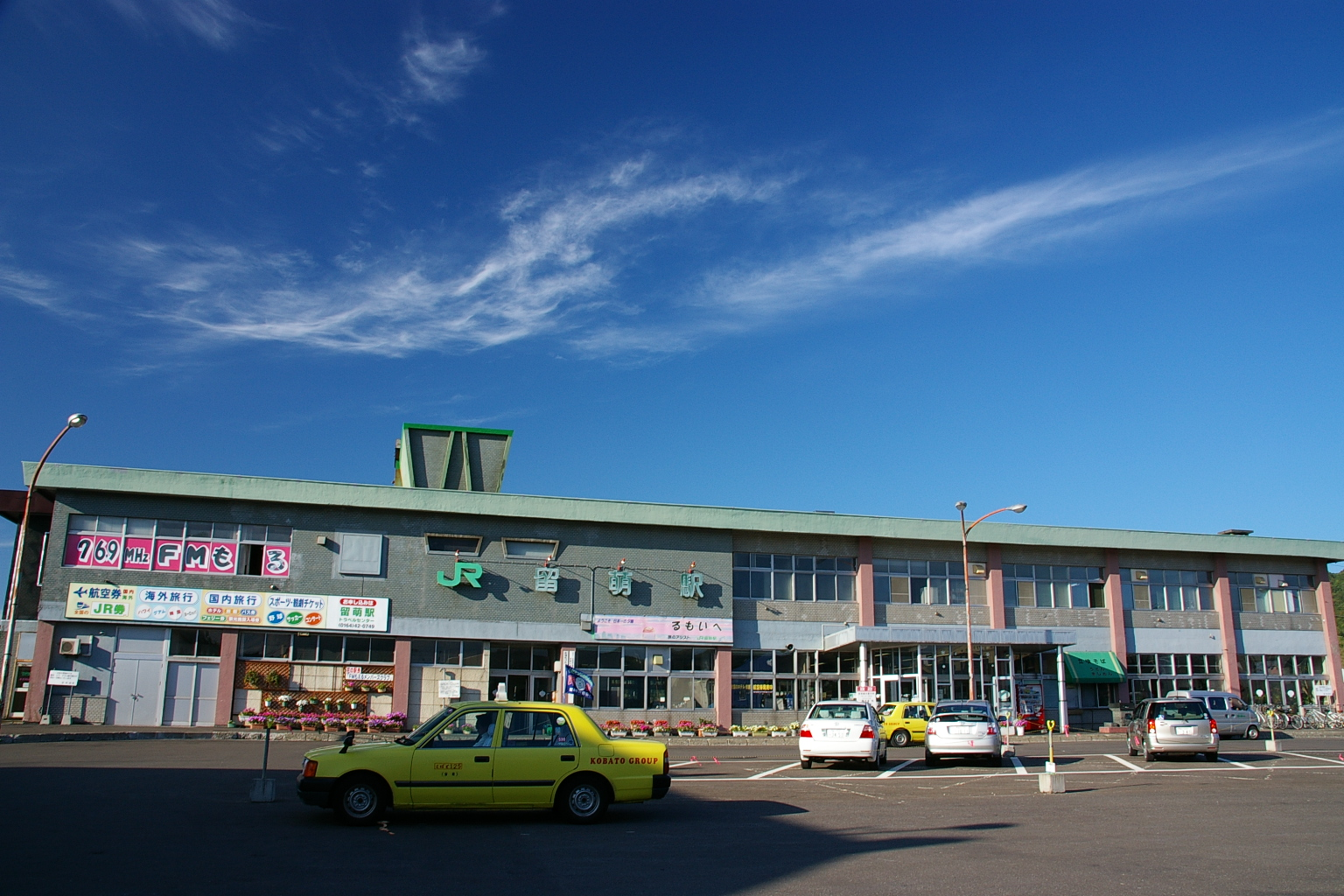 JR Hokkaido Rumoi Station